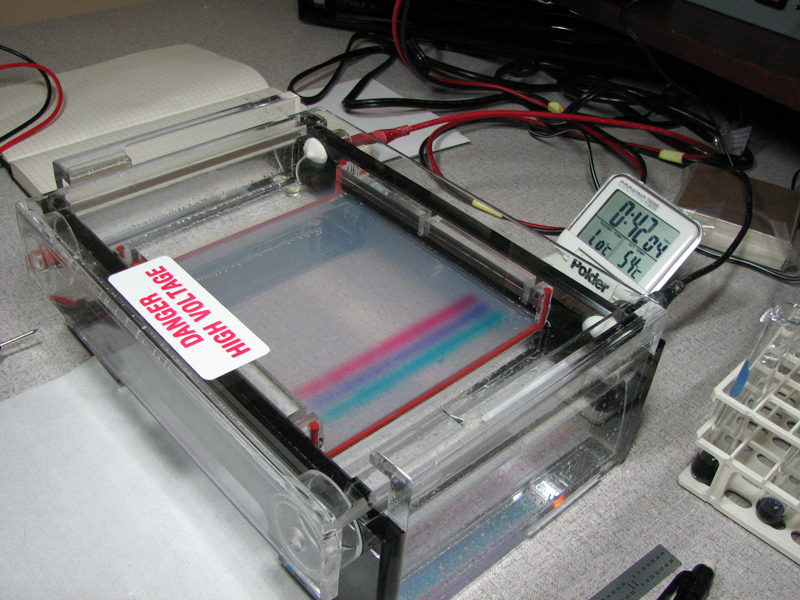 Electrophoresis. Moving along gel. About halfway through.